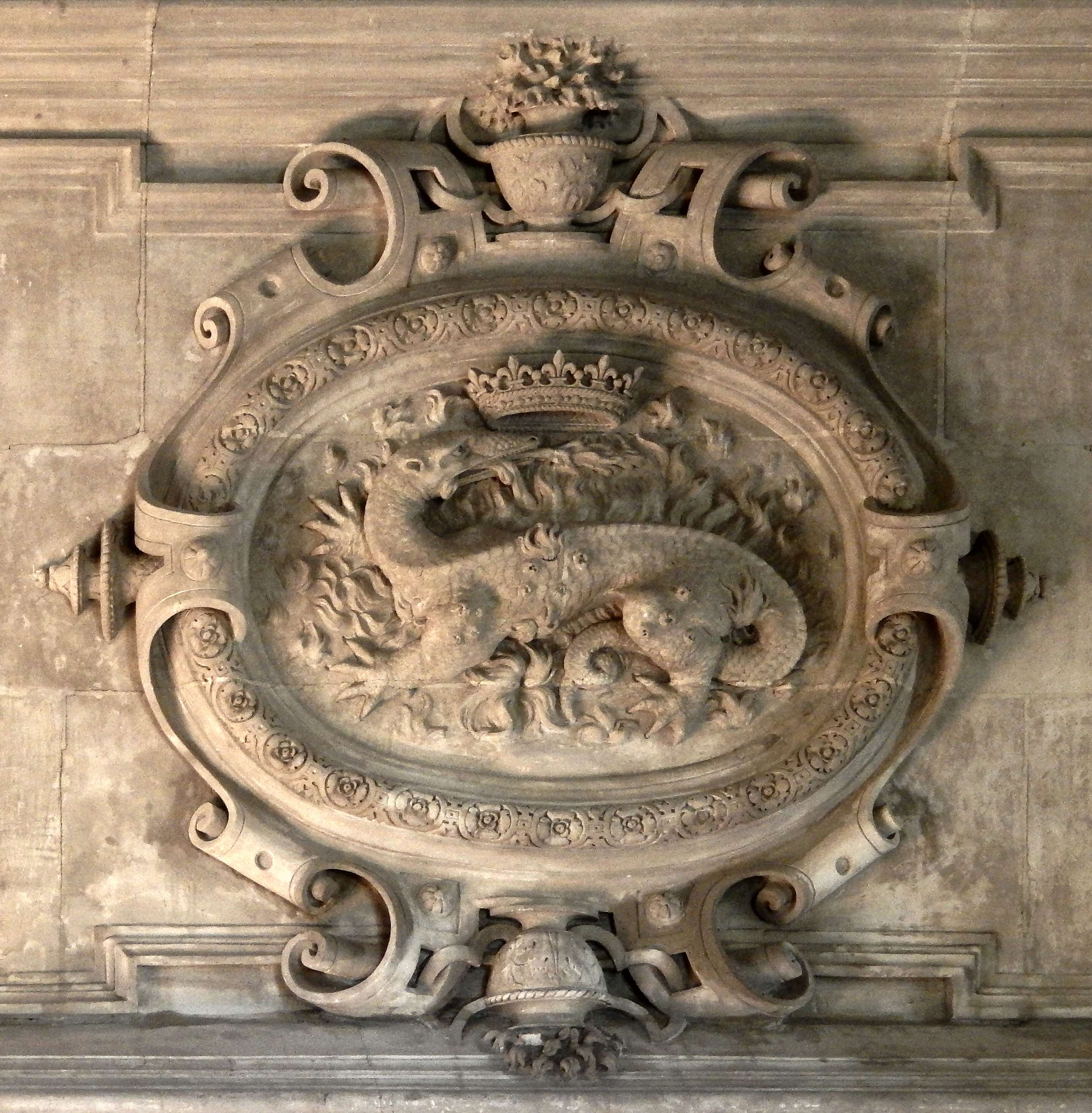 Salamander cartouche, carved in limestone, the animal emblem of King François 1st of France at the Chateau of Azay-le-Rideau, Vienne, France